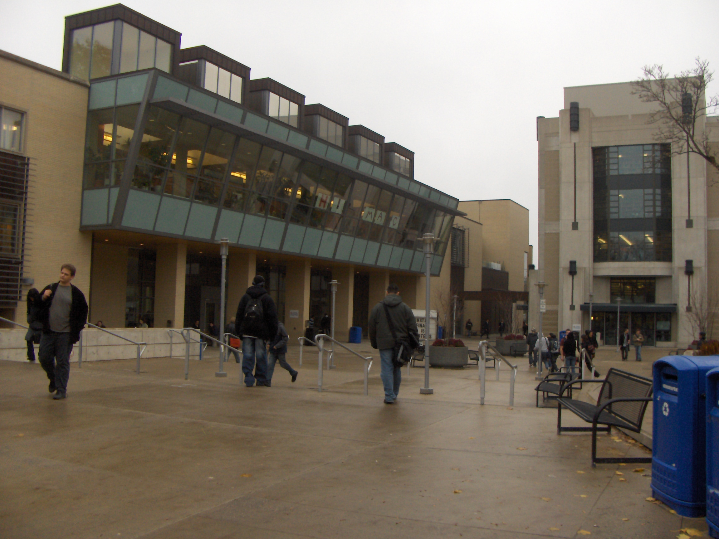 McMaster Union Student Centre